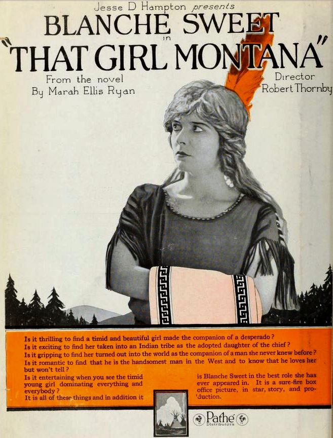 Ad for the American western film That Girl Montana (1921) with Blanche Sweet, on the back cover of the January 23, 1921 Film Daily.